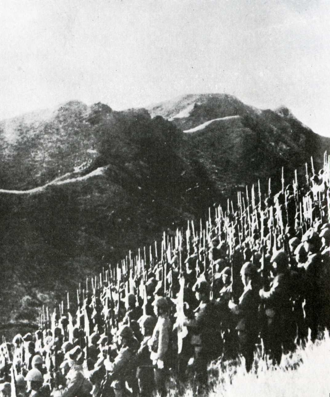 Burma Campaign IJA 15th Army before crossing into Burma, 1942